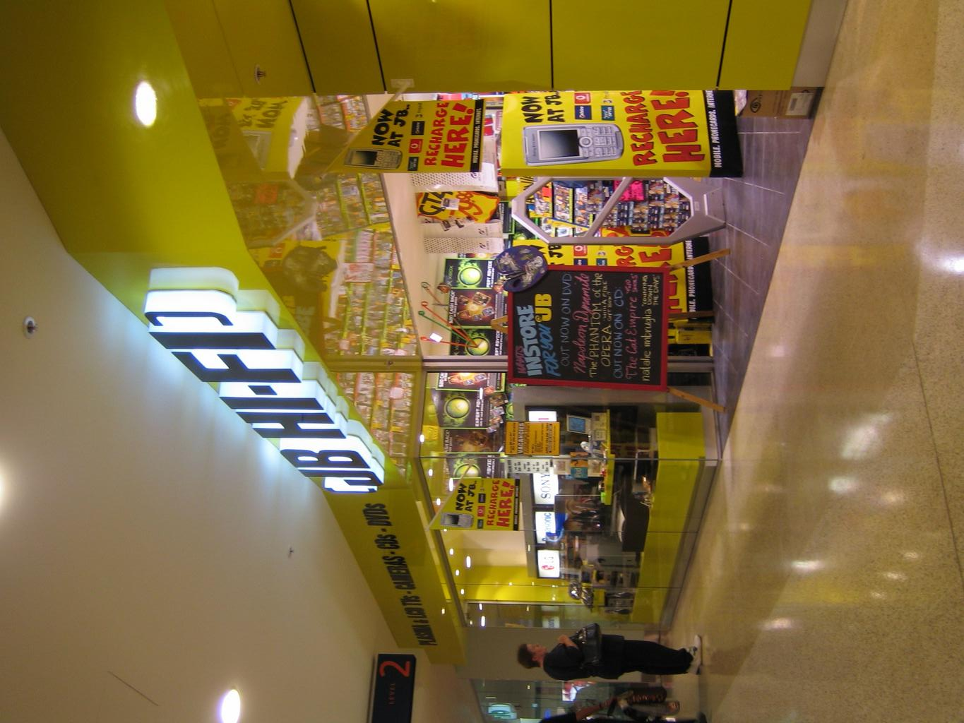 A new electronics/media store that opened recently in the Macquarie Centre - selling DVDs, CDs and TV/radios.